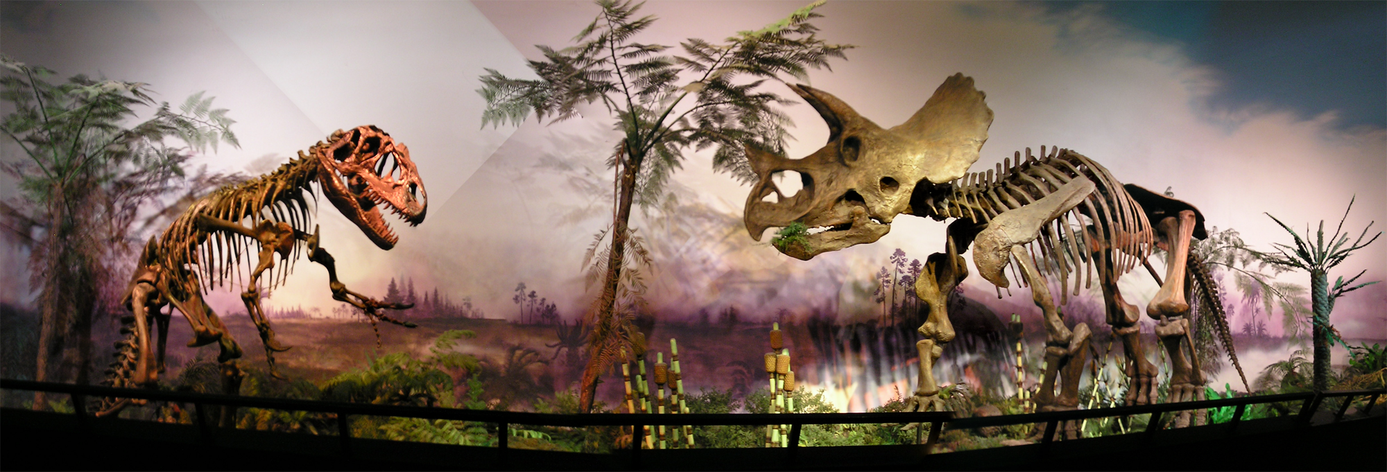 Dinosaur skeletons (Allosaurus and Triceratops) on display in the final room of the old Dinosaur Gallery at the Royal Ontario Museum, Toronto. Picture taken on the final day the gallery was open, September 1, 2005.